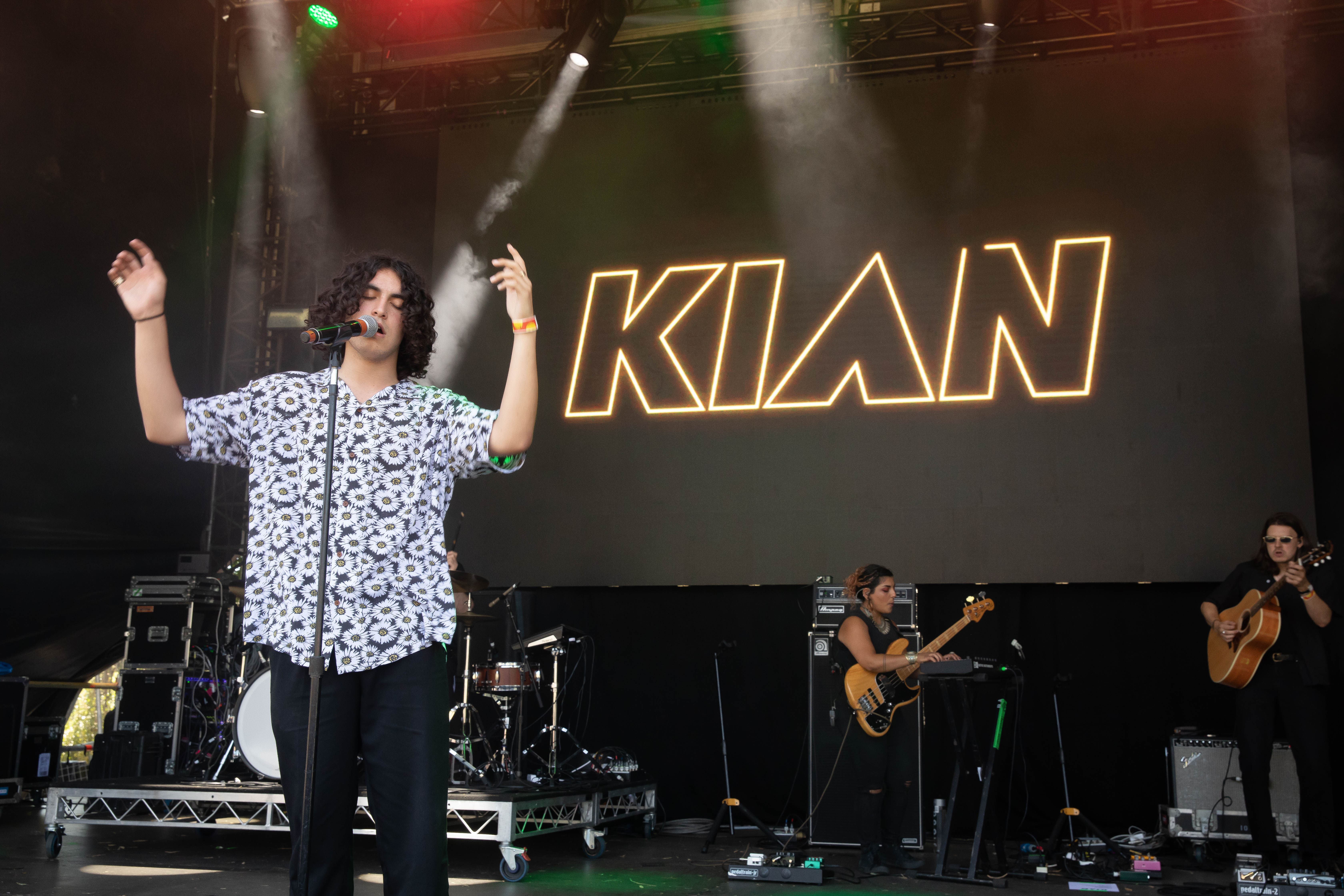 Musician Kian at St Jerome's Laneway Festival, 2019.